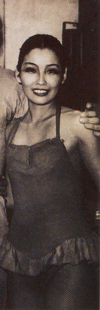 Tomoko Kurosawa at the Imperial Garden Theater after dancing Slavenska Franklin Ballet's A Streetcar Named Desire during its Japan tour in 1953. Kurosawa later became a ballet repetitrice and trained many students, including Aki Saito (Royal Ballet of Flanders) and Yohei Sasaki (The Royal Ballet).